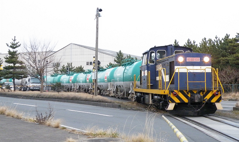 Oil freight train running on the Sendai Kitako line.